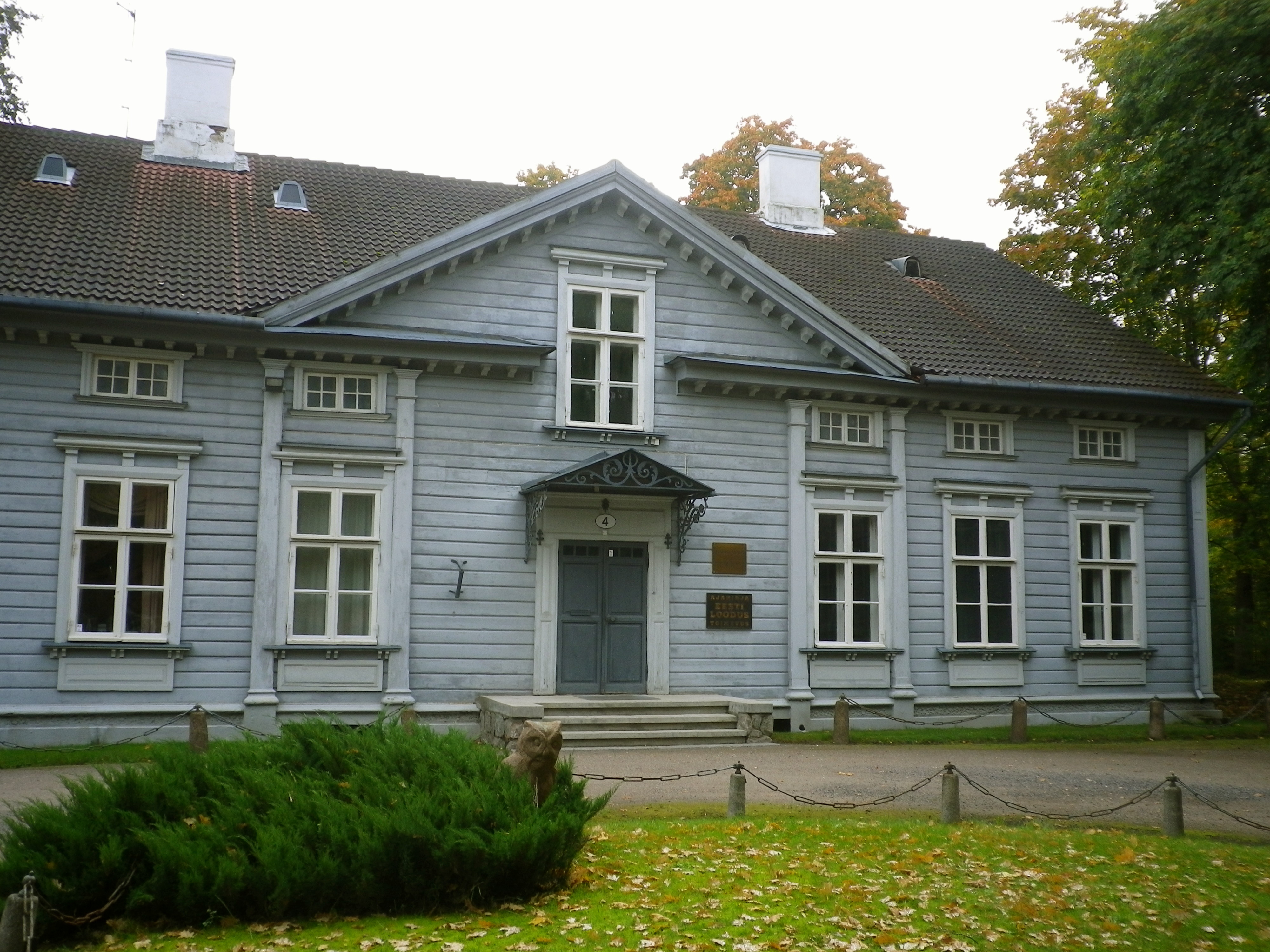 4 Veski St, Tartu. Editorial office of the journal Eesti Loodus (Estonian Nature)